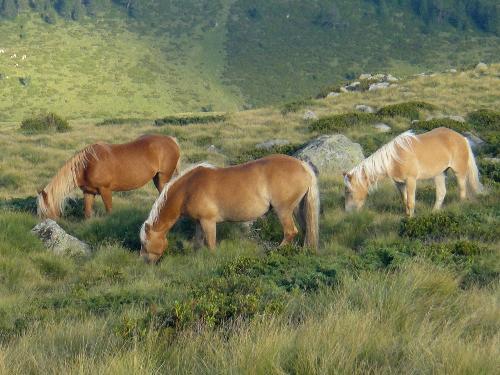 Haflinger horses in the mountains above the village of Hafling in South Tyrol, Italy.